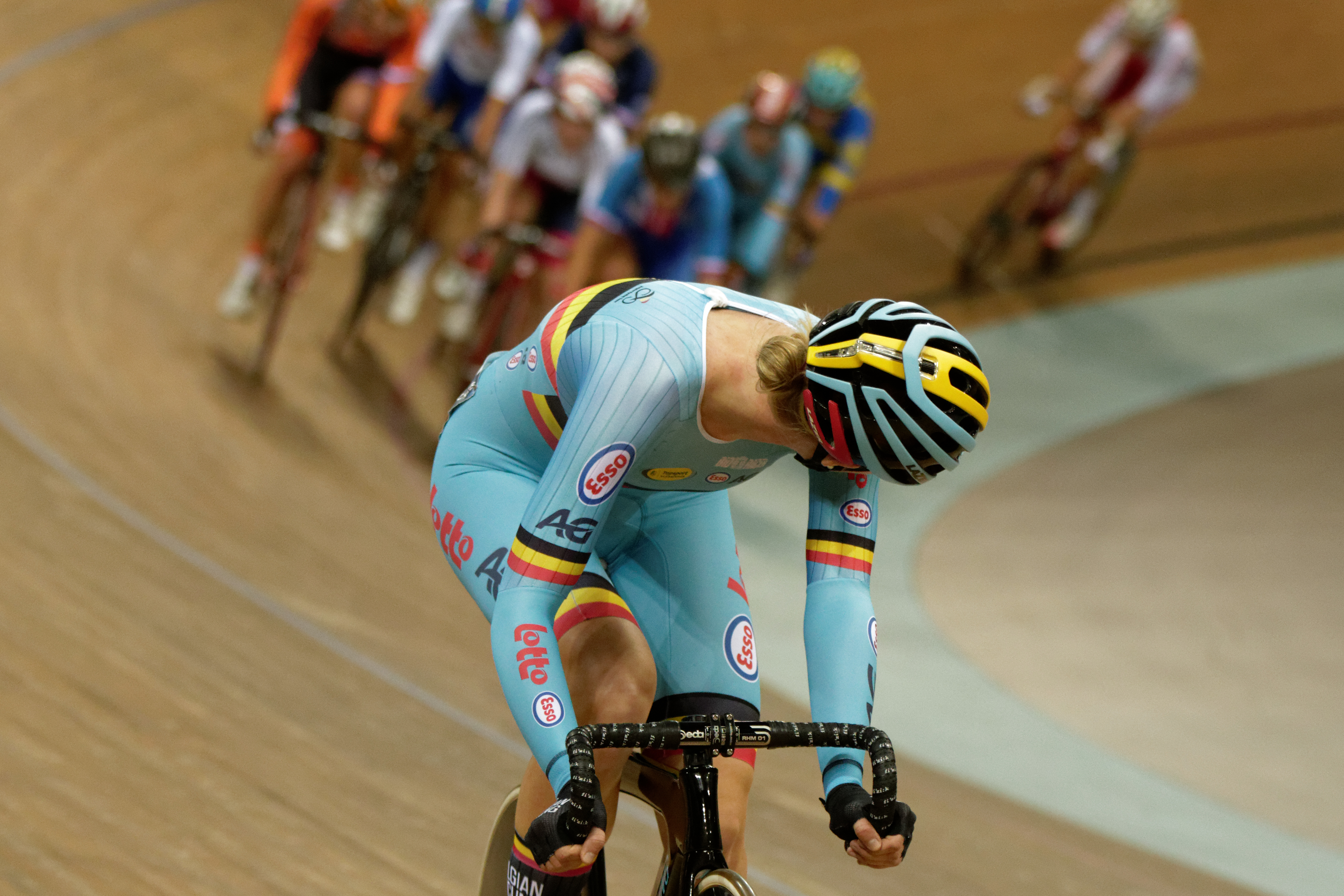 2016 UEC European Track Championships - Jolien D'Hoore, from Belgium